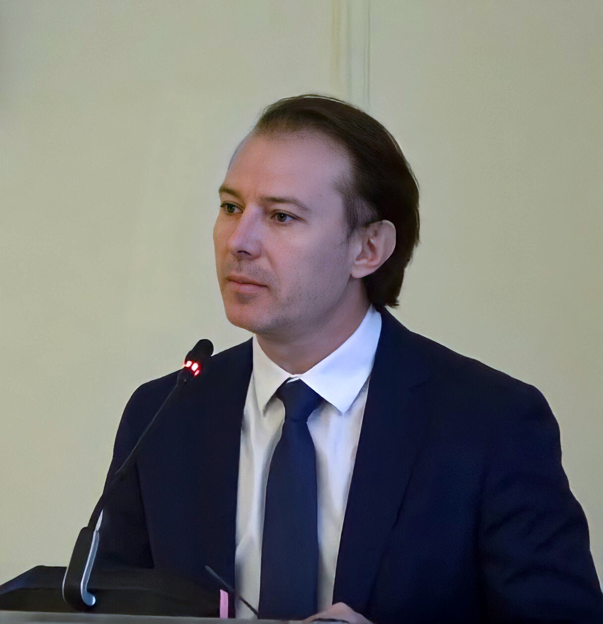 Romania's Finance Minister (since nov 2019) Florin Cîțu